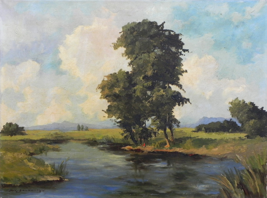 Oil painting by German painter Fritz Laubenthal (1901 - 1944). Bavarian landscape. Undated, estimated early 1940s.